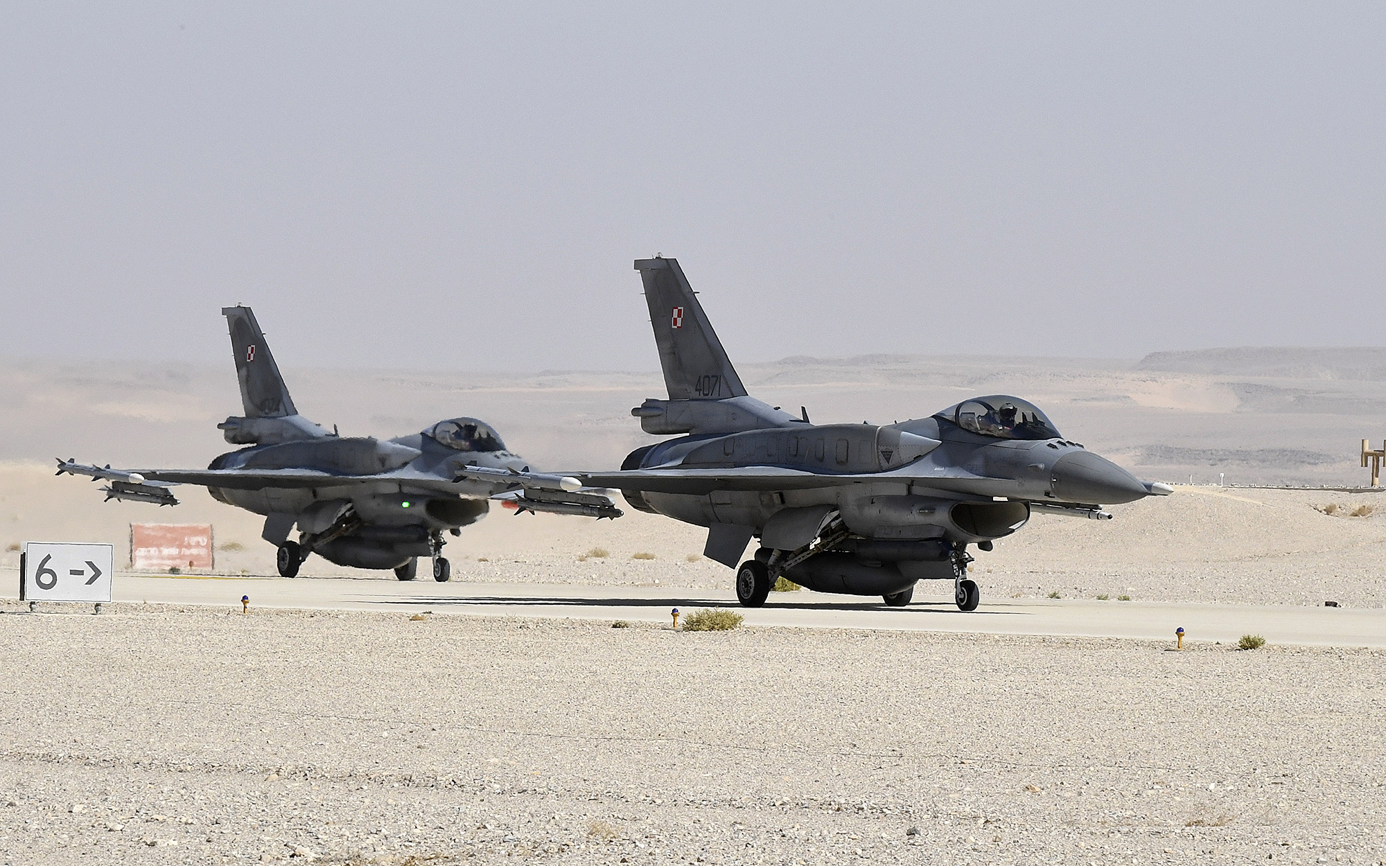 F-16 fighters of Polish Air Forces in Ovda base in Israel, 2017. Blue Flag